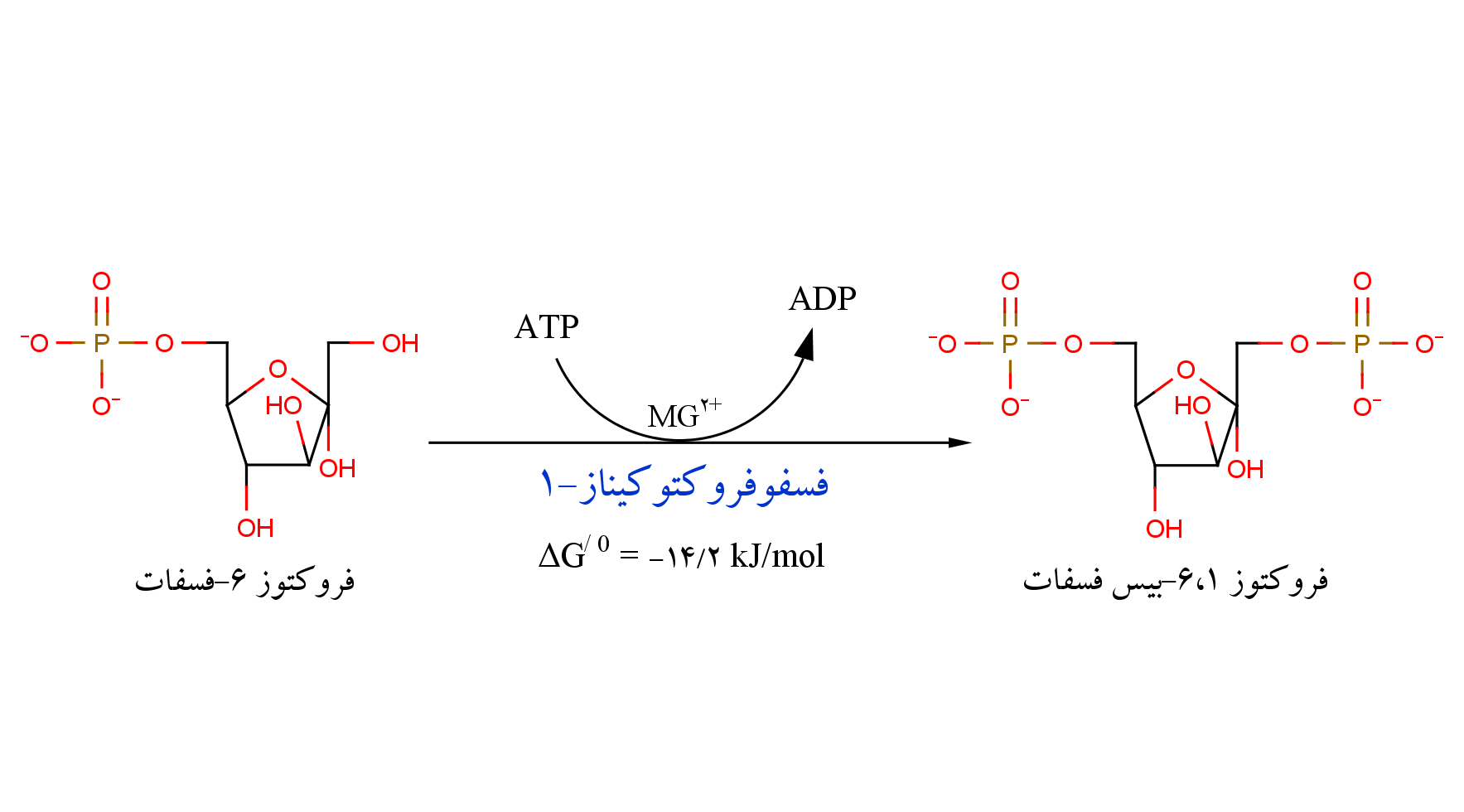 phosphofructokinase-1 (PFK-1) reaction